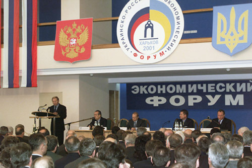 KHARKOV. Russian-Ukrainian Economic Forum.